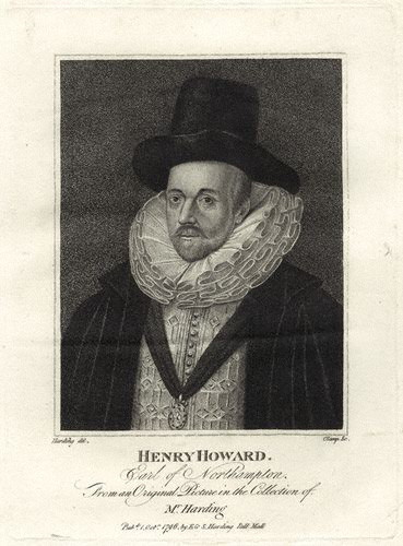 Henry Howard, Earl of Northampton (1540-1614)